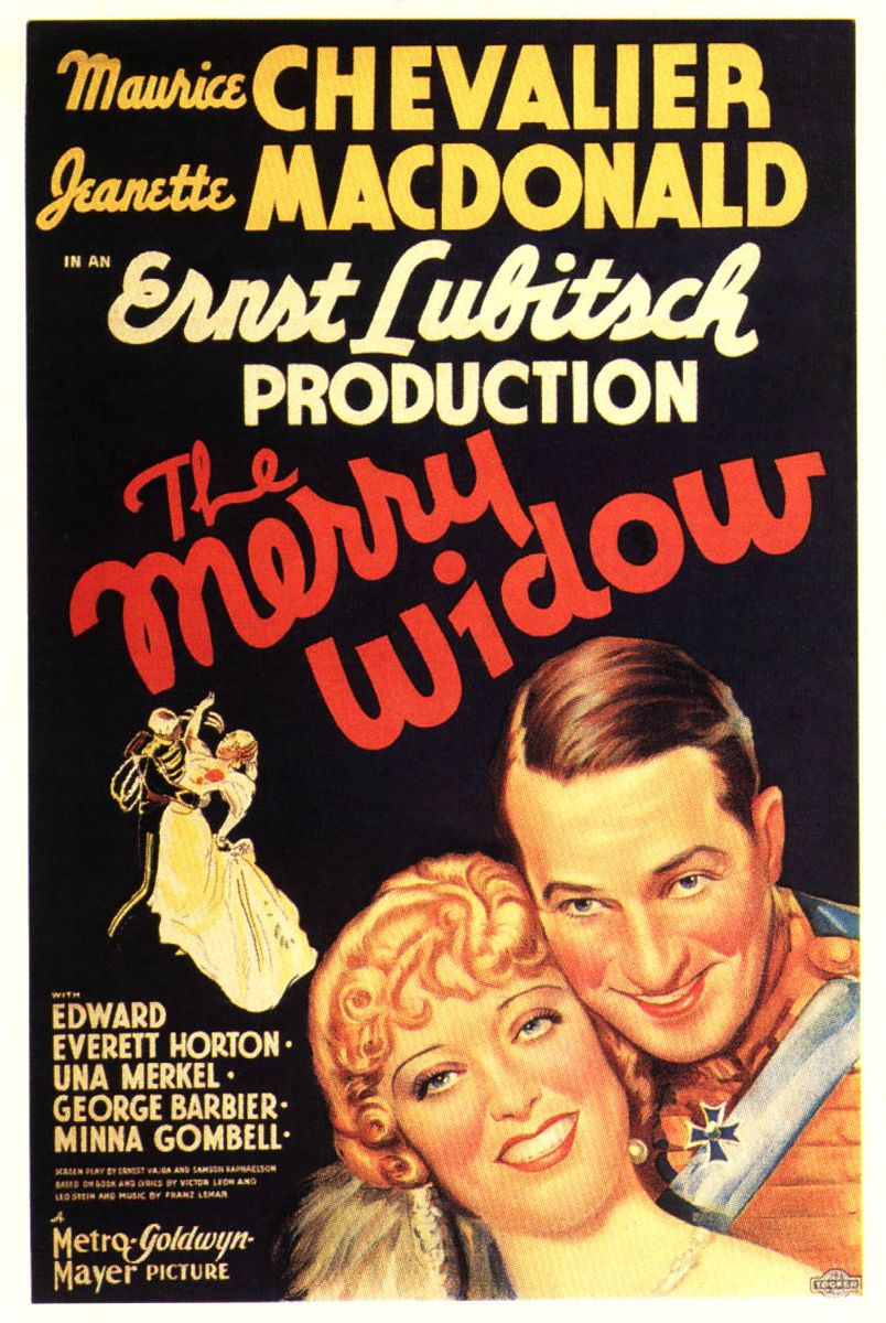 Poster for the 1934 film The Merry Widow. There are no copyright marks on the item, which can be seen at the link. At bottom is a logo for the Tooker Lithograph Company--they printed the poster.